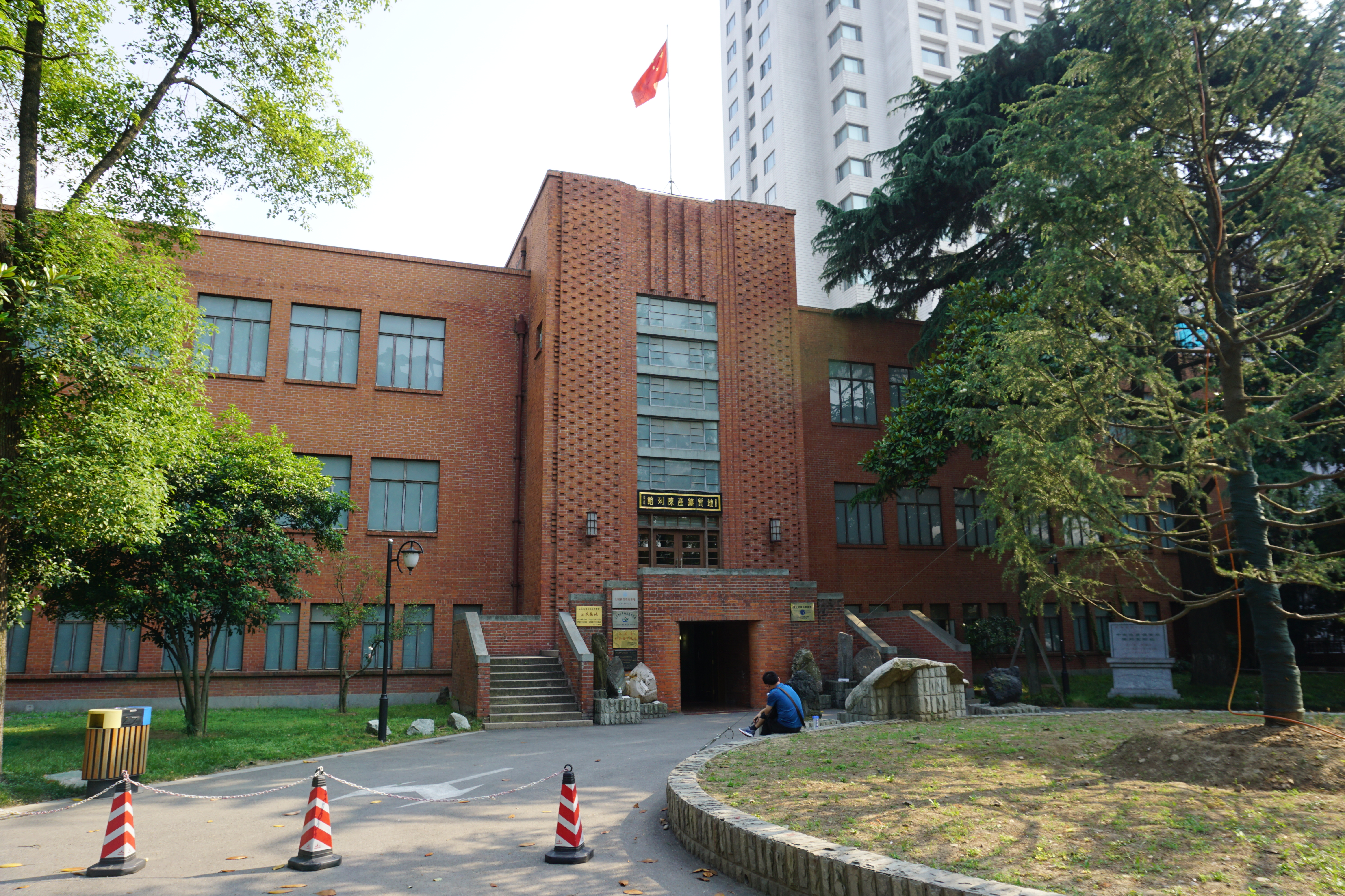 Nanjing Geological Museum, Old Buiding